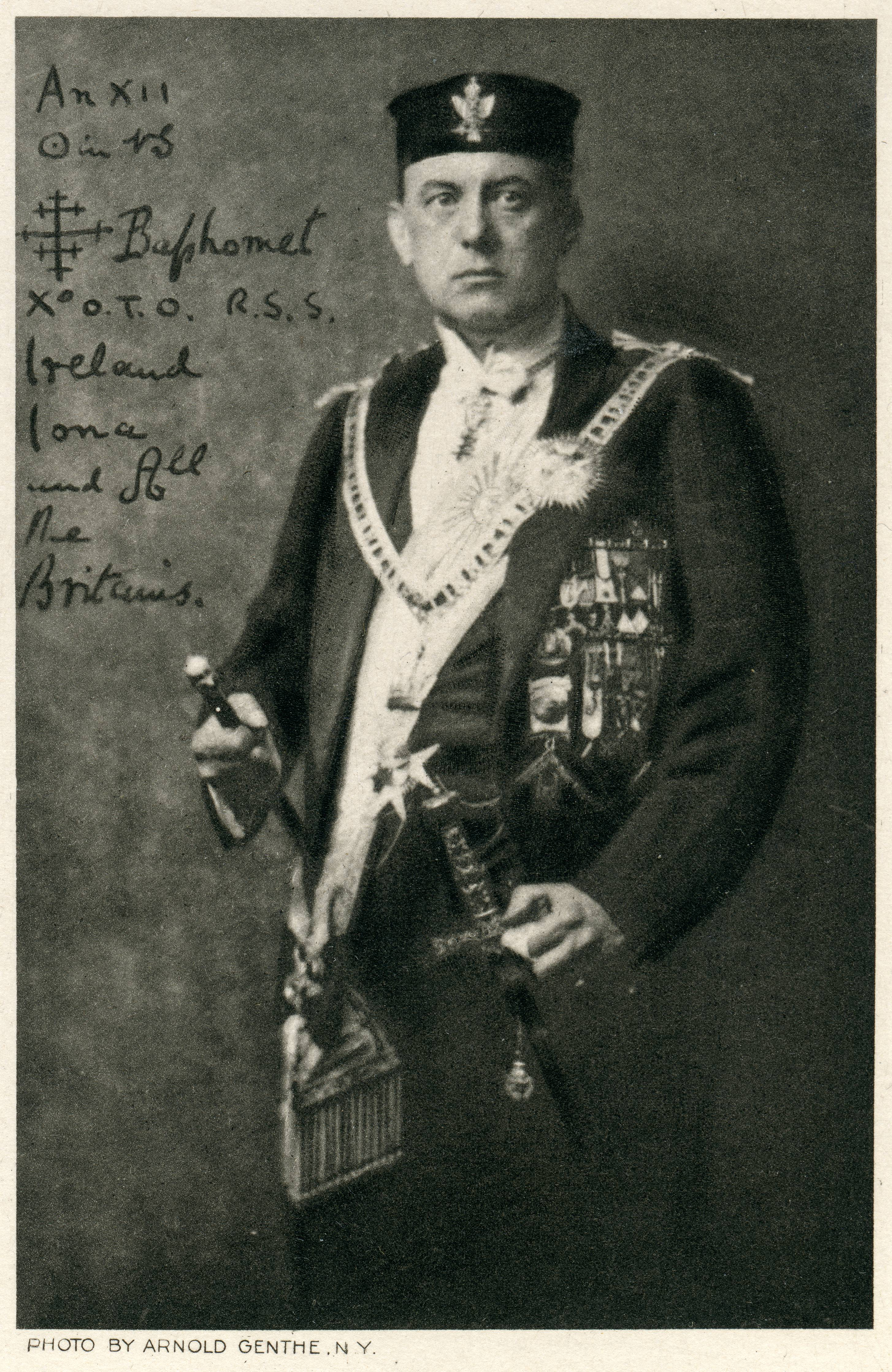 Aleister Crowley as Baphomet X° O.T.O. Transcription of contained text: An XII ☉ in ♑ [cross] Baphomet X° O.T.O. R.S.S. Ireland Iona and All the Britains.